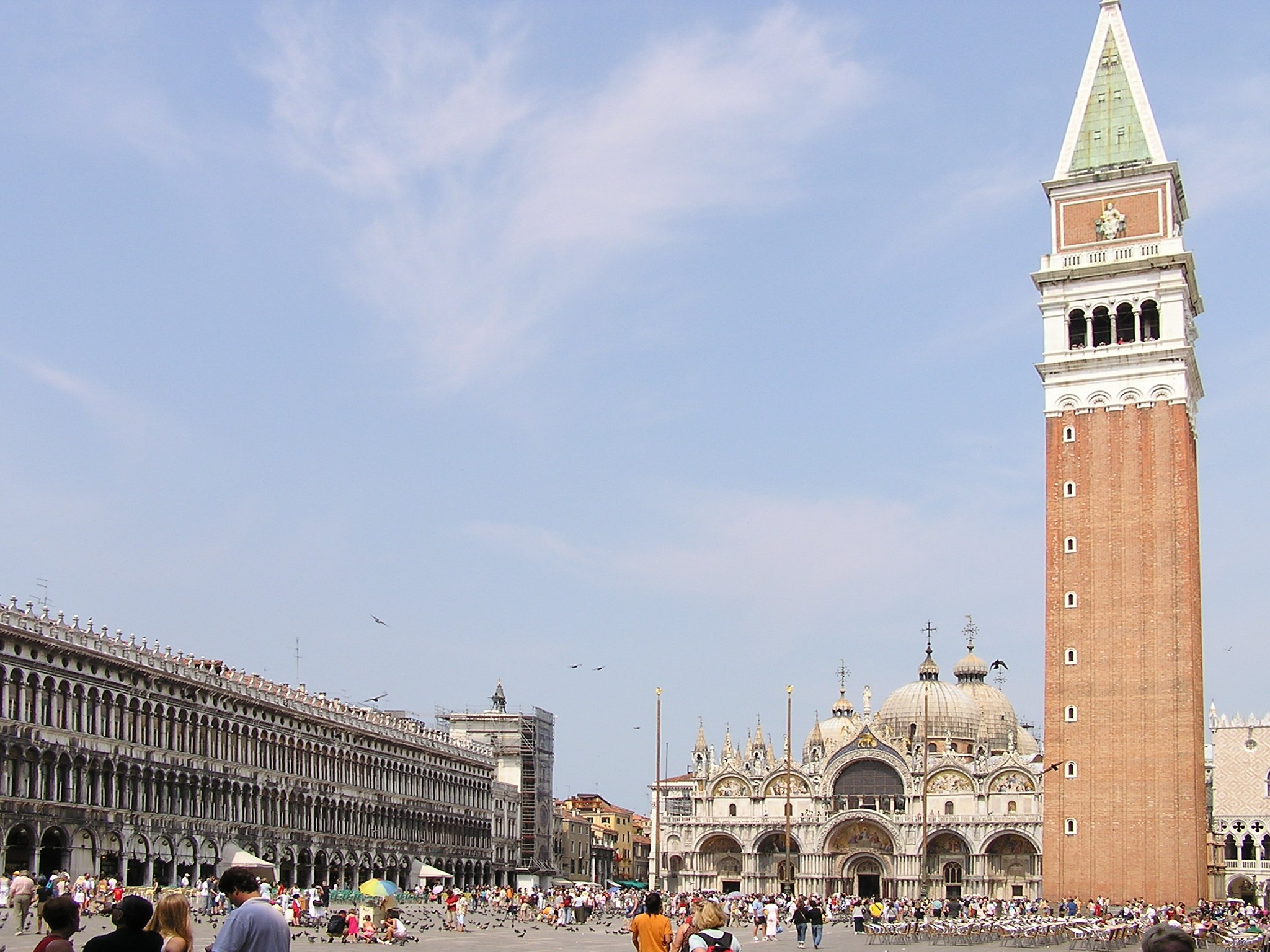 San Marco Square; Venice/Italy